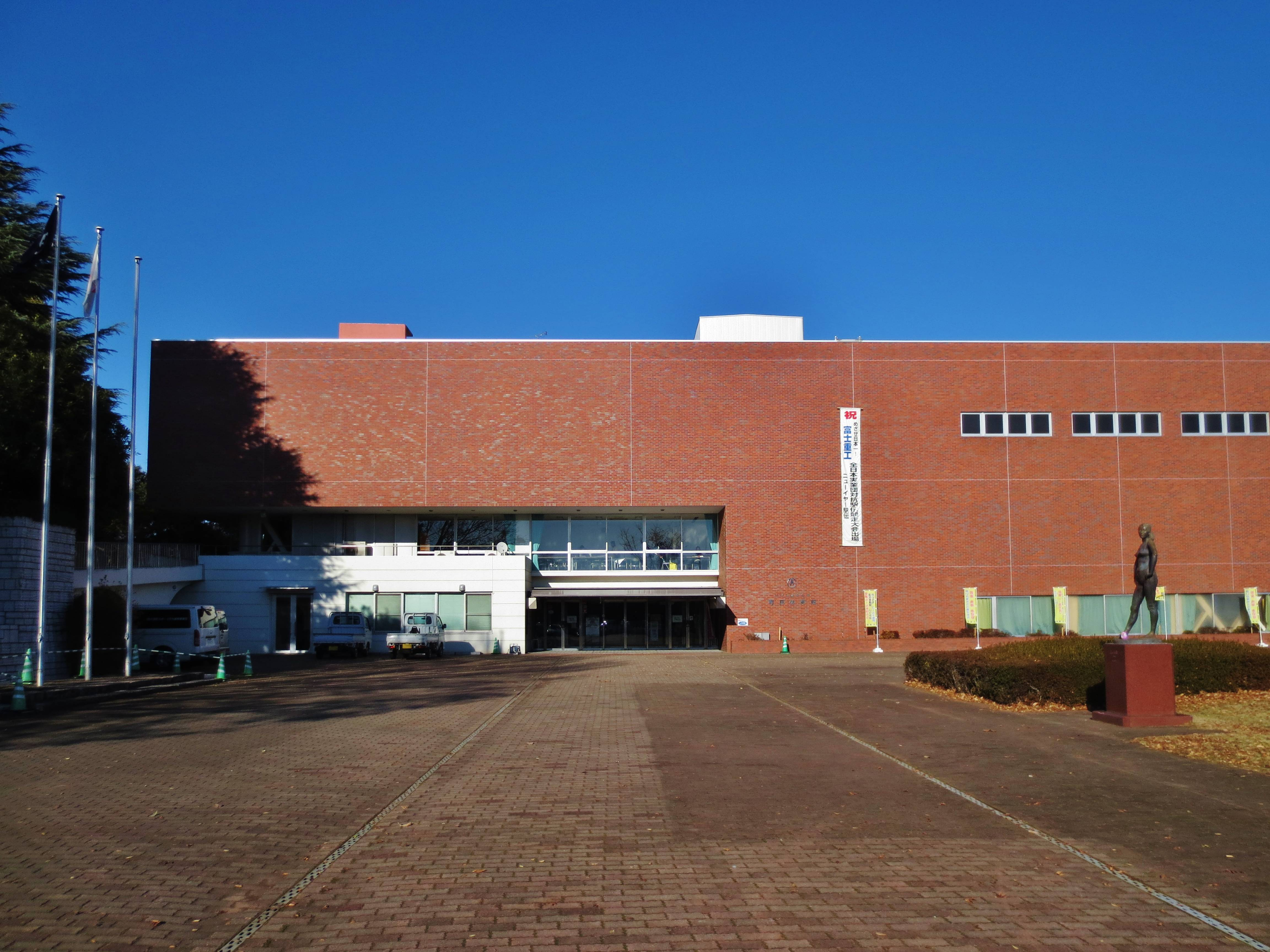 Oizumi town gymnasium.